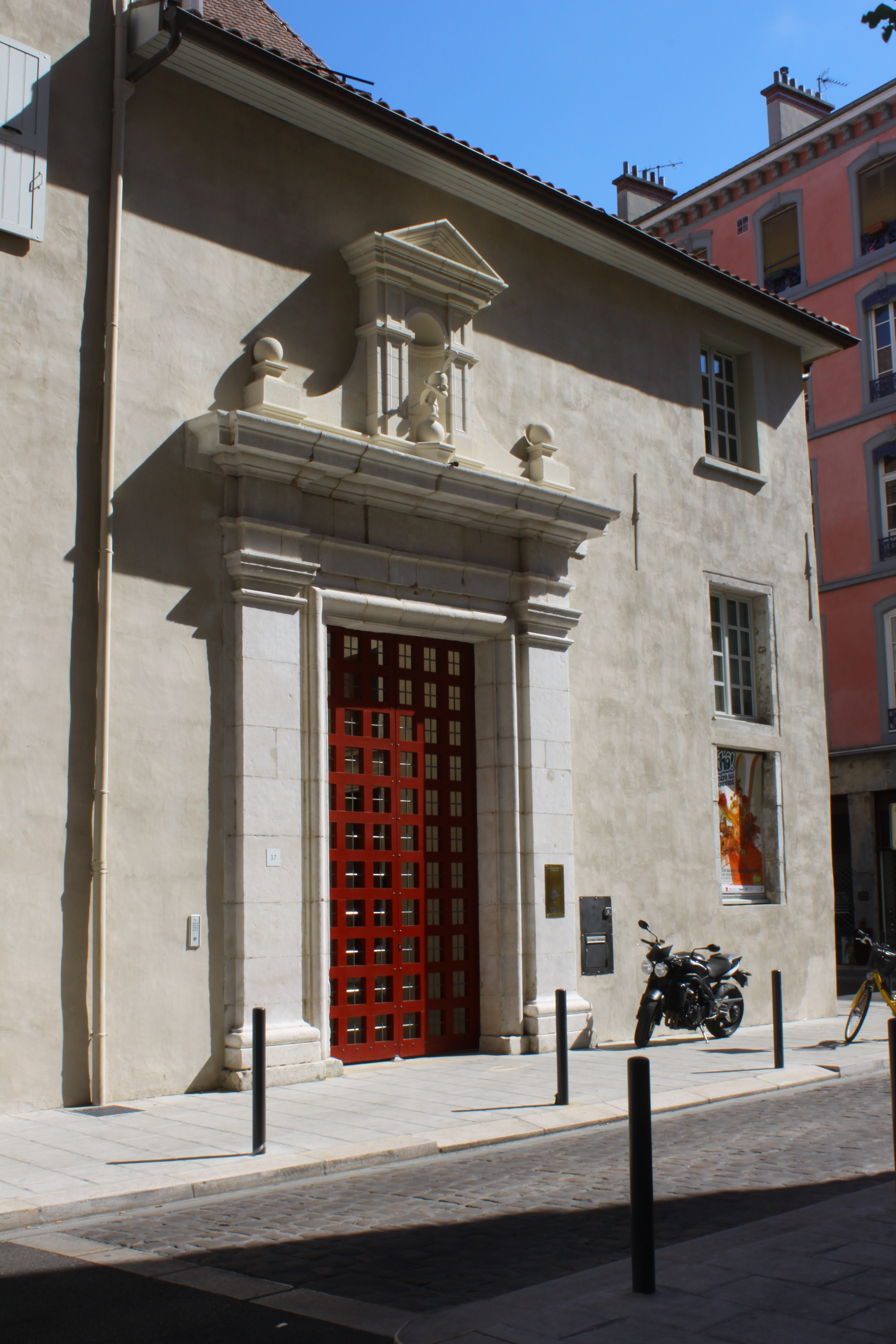 Glénat head office in Grenoble (France) - 37 Rue Servan